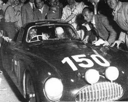 Piero Taruffi and co-driver Buzzi in a Cisitalia 202 "Aerodinamica" CMM (Coupe Mille Miglia). This one is red (#001) at the 1947 Mille Miglia (June 22, 1947). They did not finish (DNF).[1]